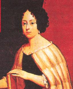 Elena Lucrezia Cornaro Piscopia, mathematician, painting of XVII century